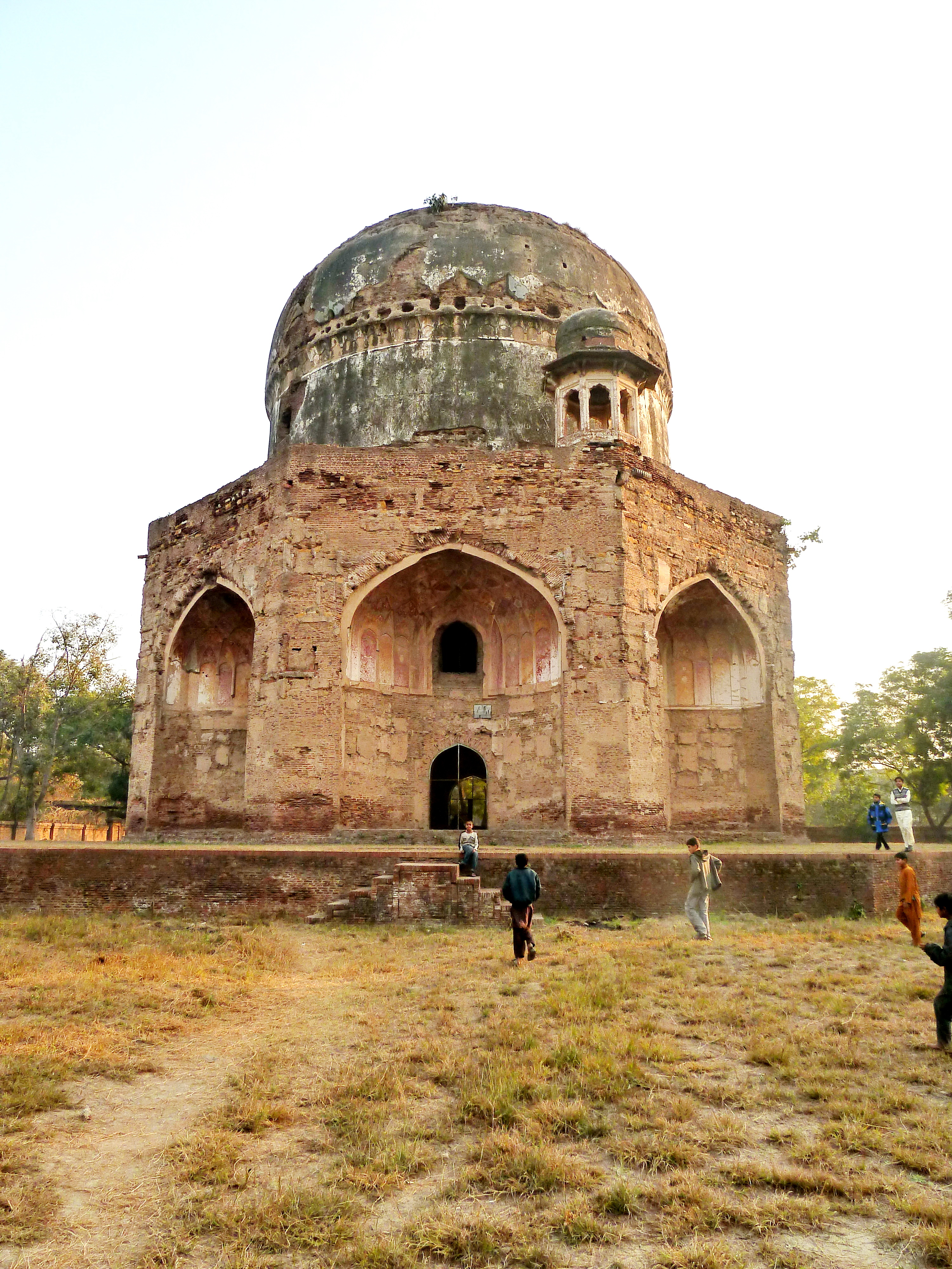 The octagonal Tomb of Ali Mardan Khan, Lahore This is a photo of a monument in Pakistan identified as the PB-41